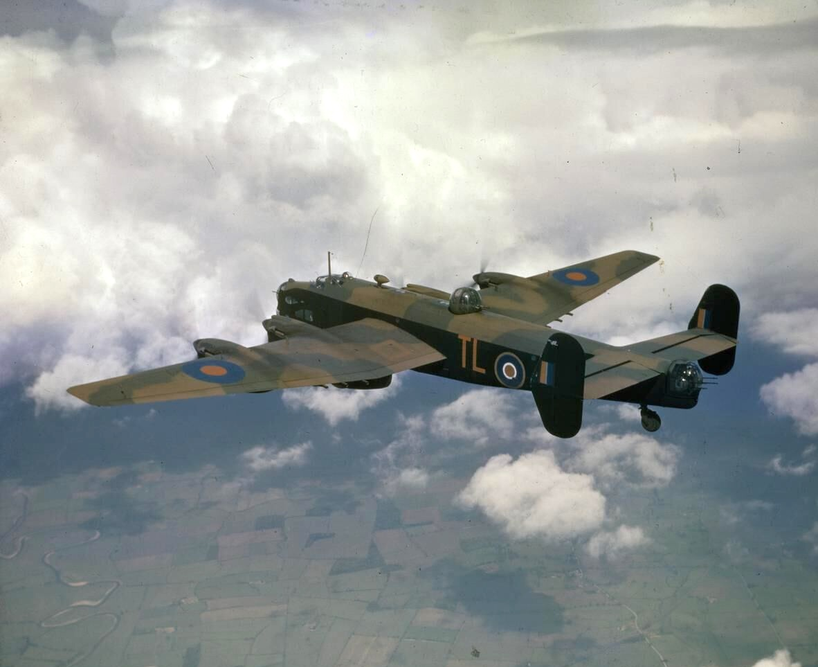 A Royal Air Force Handley Page Halifax Mark II Series I (s/n W7676, 'TL-P') of No. 35 Squadron RAF based at Linton-on-Ouse, Yorkshire (UK), being piloted by Flight Lieutenant Reginald Lane, (later Lieutenant-General, RCAF), over the English countryside. Flt Lt Lane and his crew flew twelve operations in W7676, which failed to return from a raid on Nuremberg on the night of 28/29 August 1942, when flown by Flt Sgt D. John and crew.